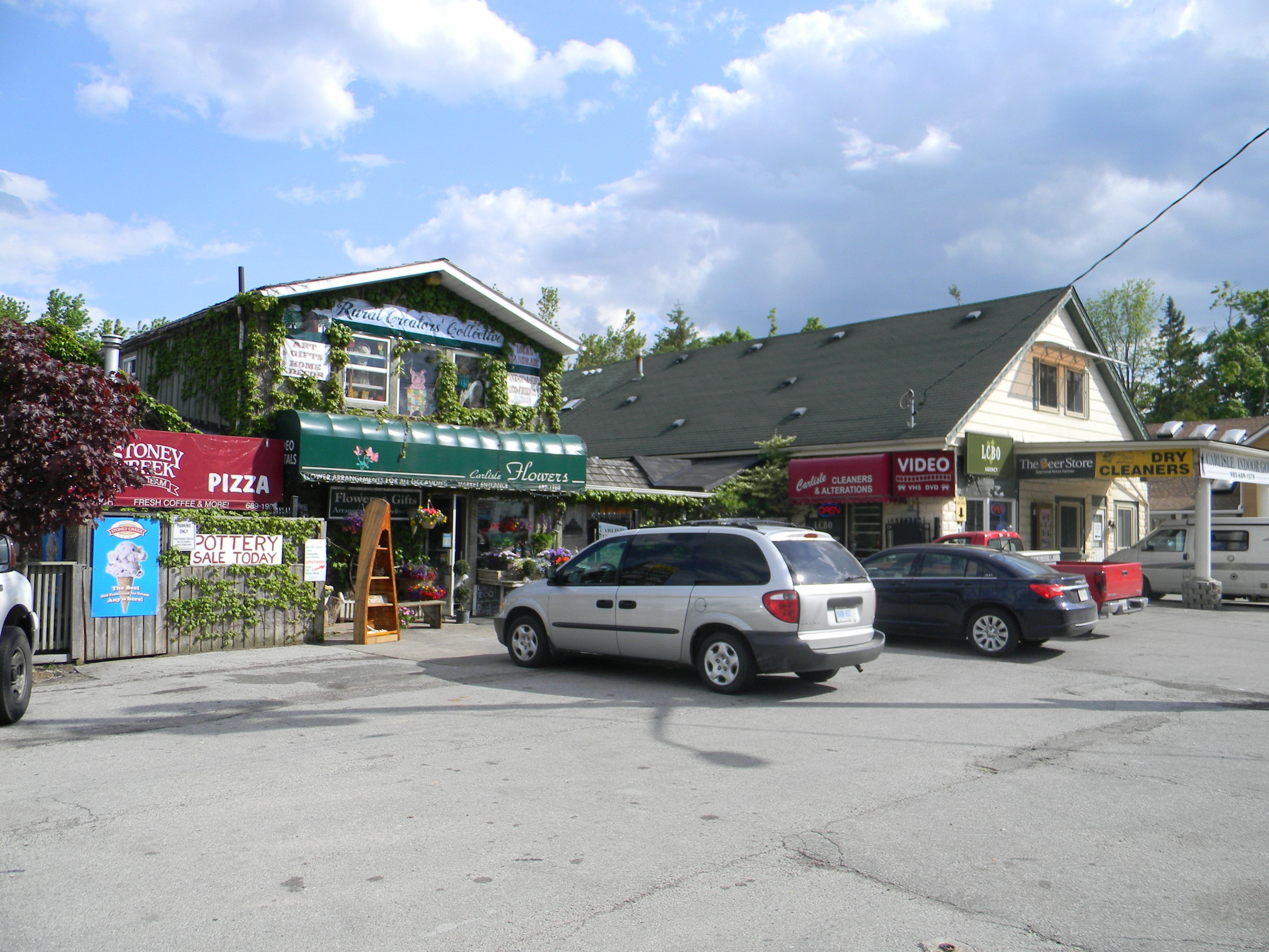 Carlisle, Ontario, Canada. Village downtown